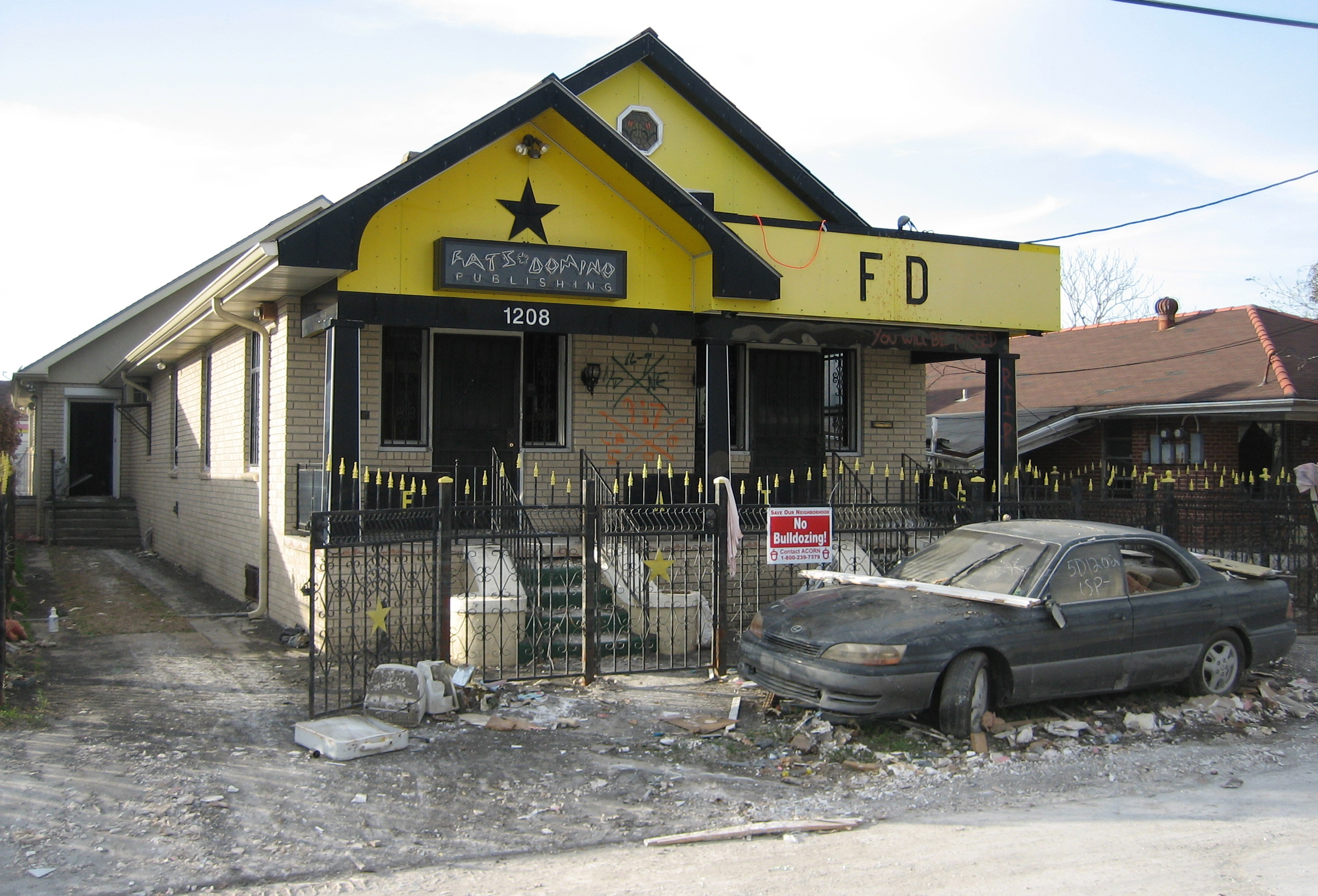 New Orleans after Hurricane Katrina: Formerly flooded Fats Domino office and home complex Lower 9th Ward Photo by Infrogmation